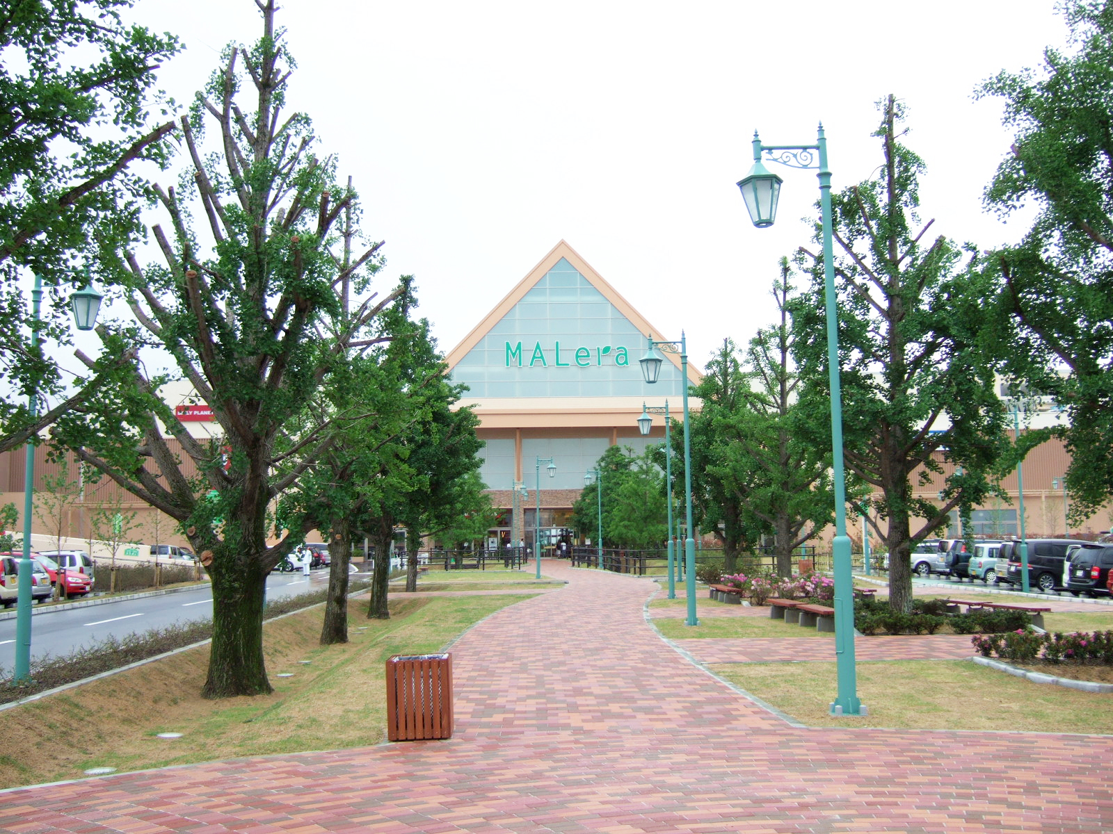 MALera Gifu in Japanese Gifu Motosu city. It is the shopping mall of the maximum class in Japan.